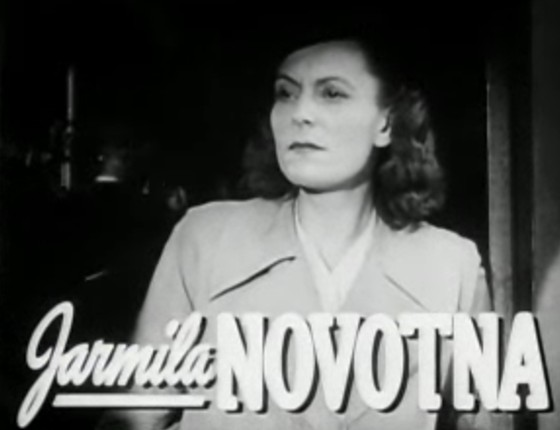 Cropped screenshot of Jarmila Novotna from The Search. Further cropped from Image:Montgomery Clift in The Search trailer.jpg